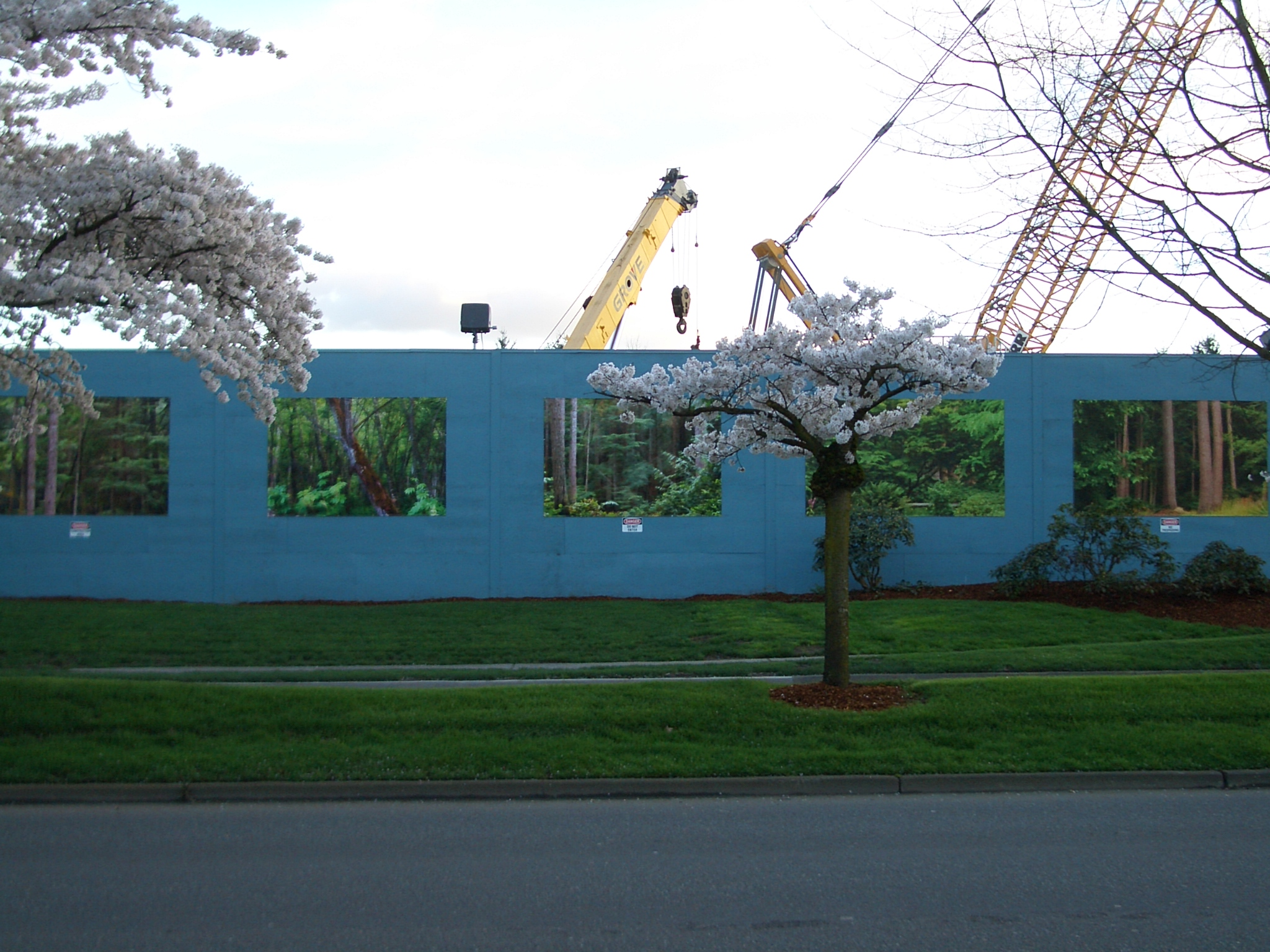 A fenced construction site on the east side of Bothell, Wa., offers an enchanting forest view to the passers-by